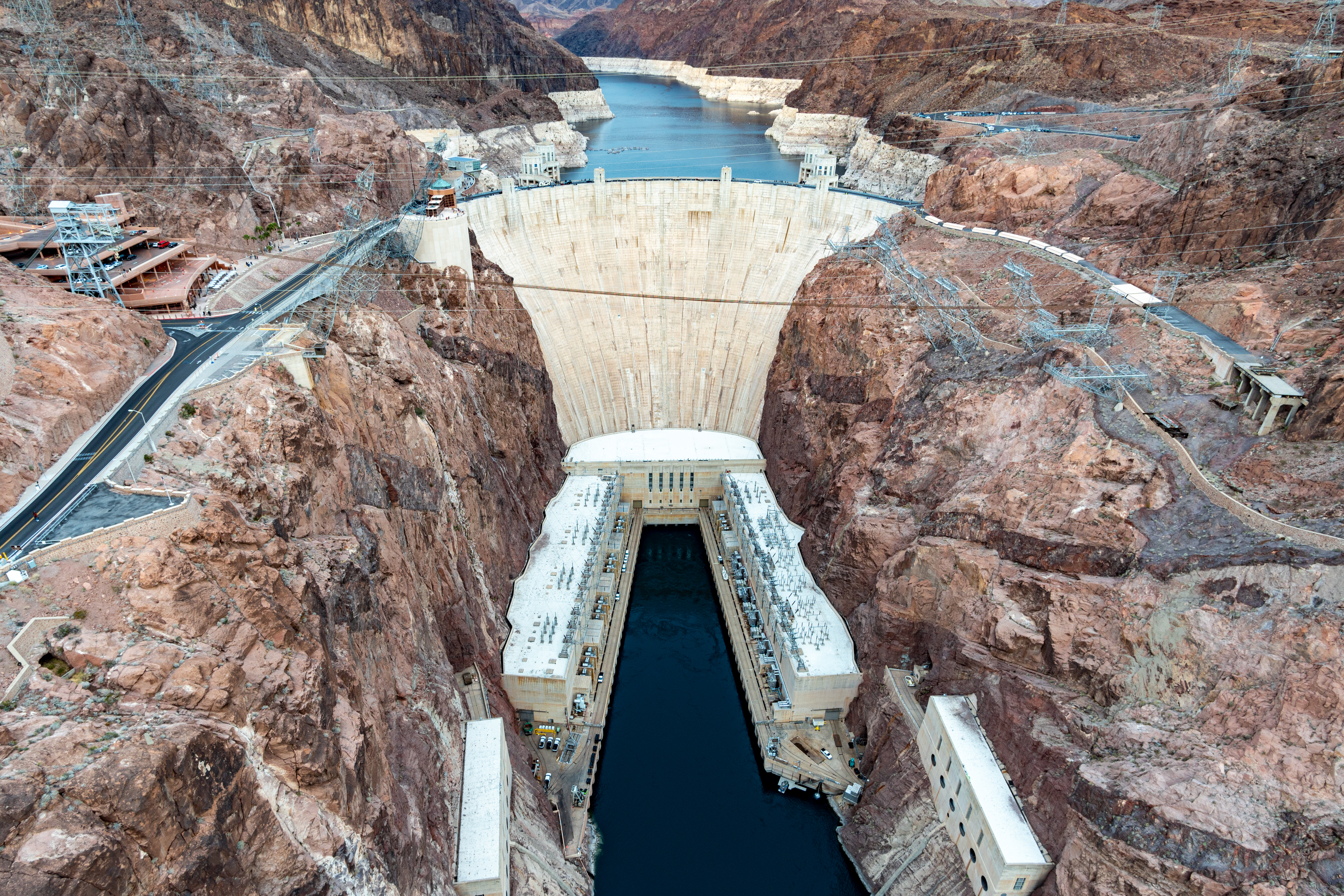 View of Hoover dam from pedestrian section of Mike O'Callaghan–Pat Tillman Memorial Bridge showing dam visitor center to the left, on the Nevada side.